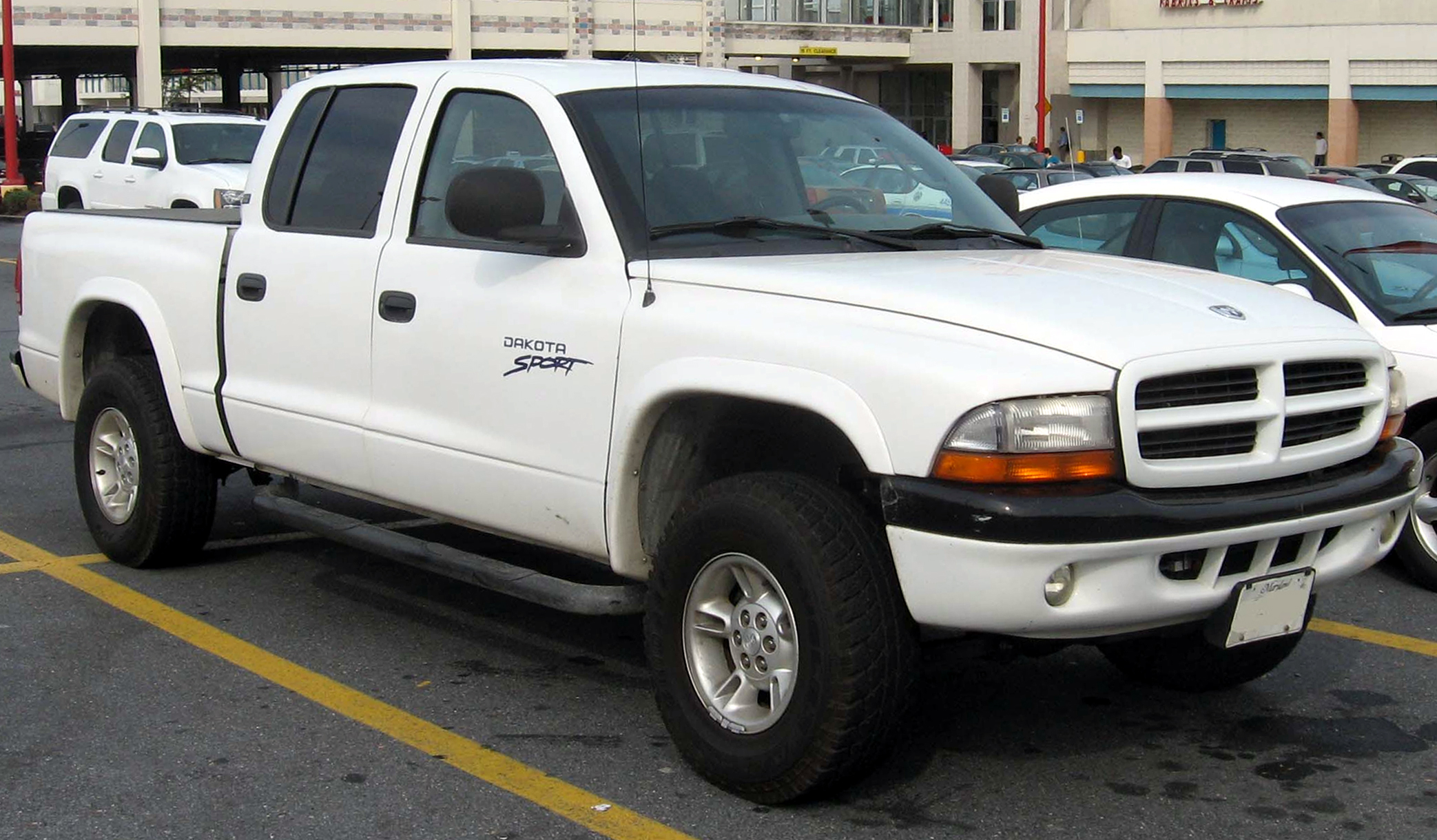 2000-2004 Dodge Dakota photographed in Greenbelt, Maryland, USA.